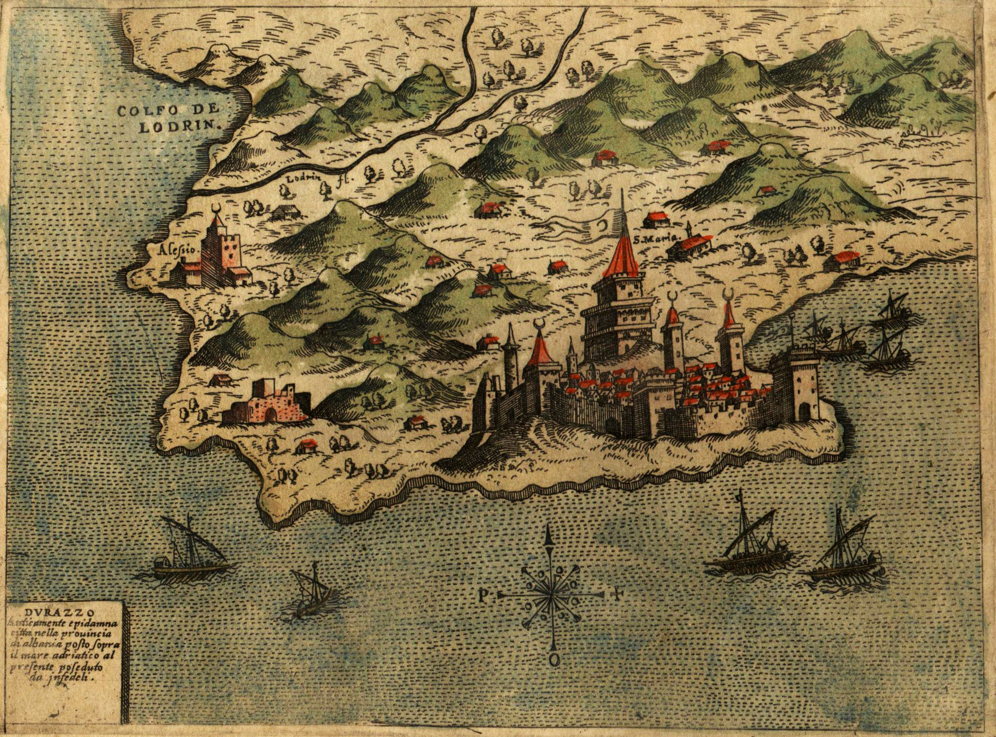 Map of Durazzo (now Durrës) in 1573 by Simon Pinargenti.